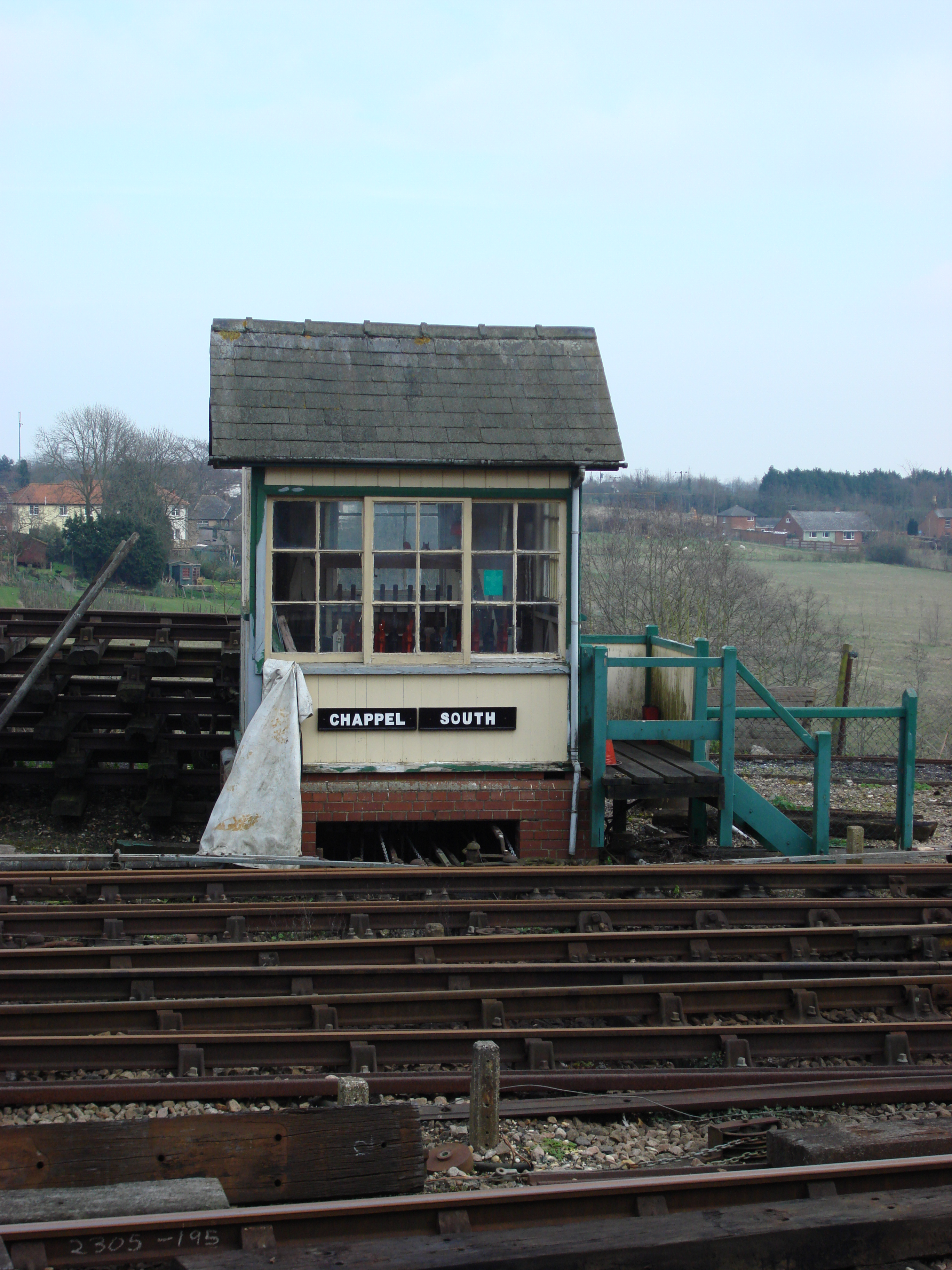 Signal box at the Chappel and Wakes Colne railway station, belonging to the East Anglian Railway Museum and formerly situated at Fotherby Halt railway station.